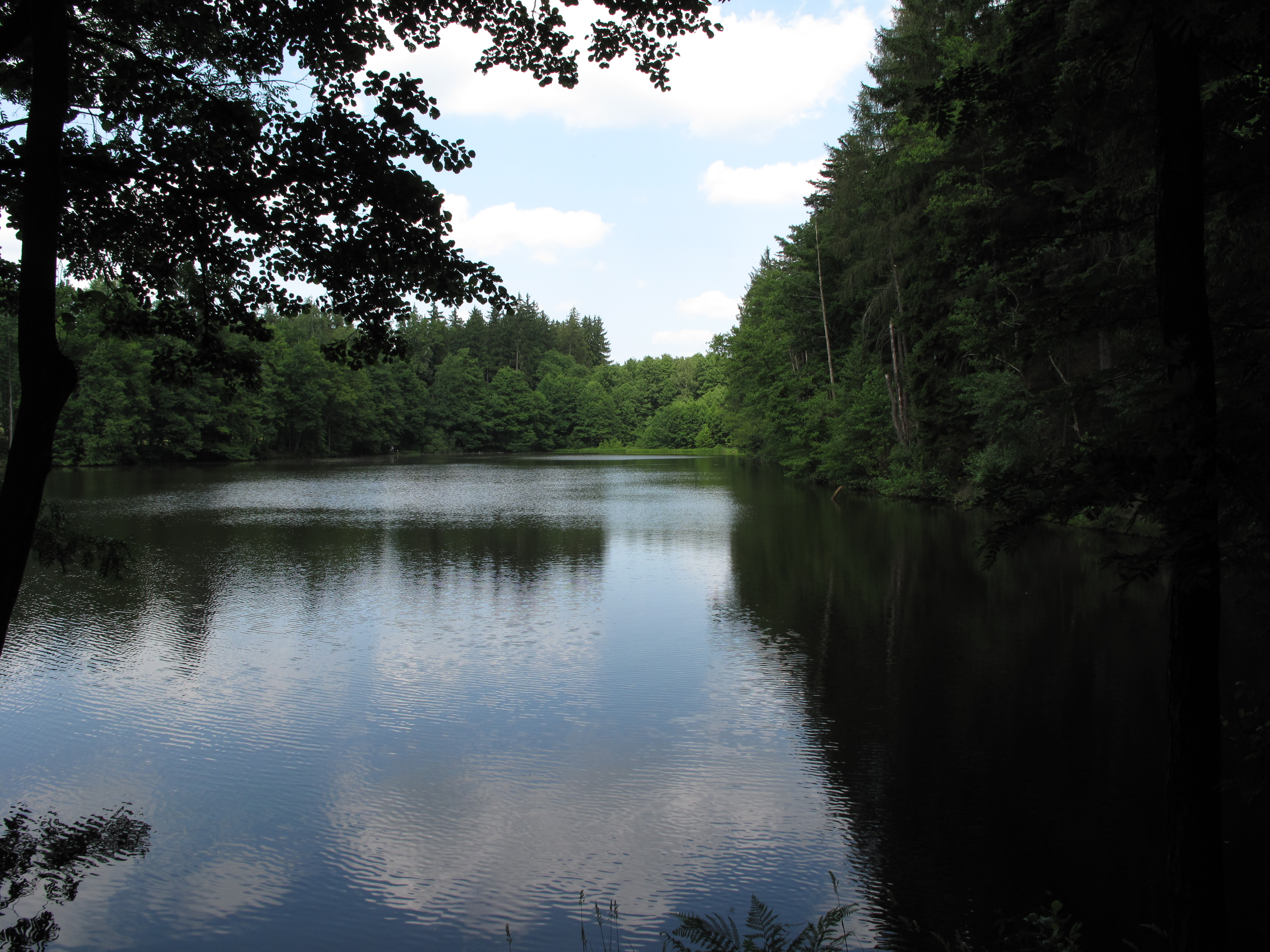 Horní Haberský Pond, Rokycany District, Czech Republic.